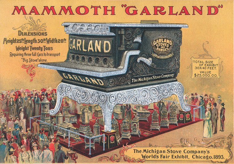 Brochure image of MAMMOTH "GARLAND" of the Michigan Stove Company's 1893 World's Fair Exhibit